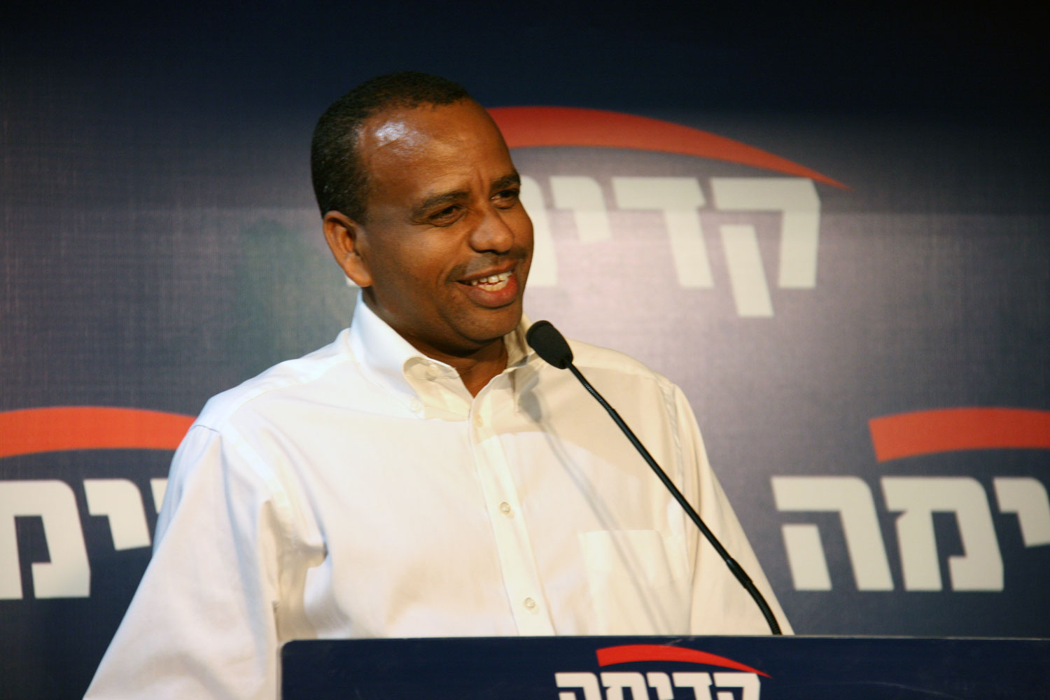 MK Shlomo Molla, Member of Kadima Party (Israel). Photo by: Itzik Edri, Kadima Party PR Team